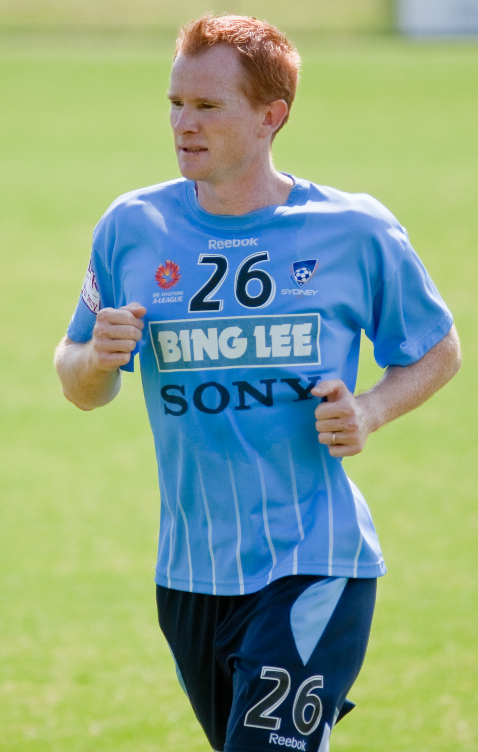 Hayden Foxe at a Sydney FC training session.